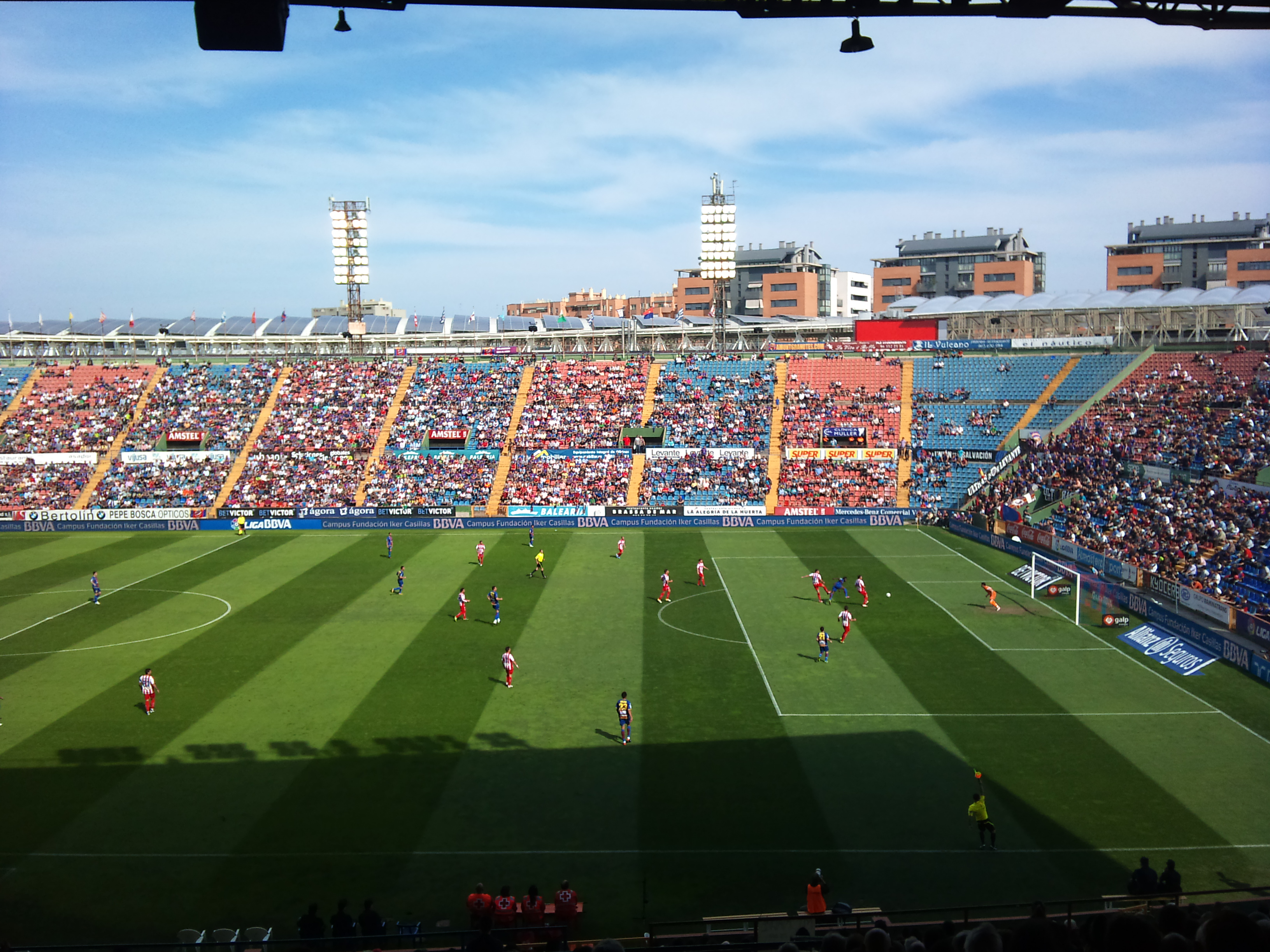 Felipe Caicedo shoots for Goal in off-side, in a Llevant UE - Sporting de Gijón match.